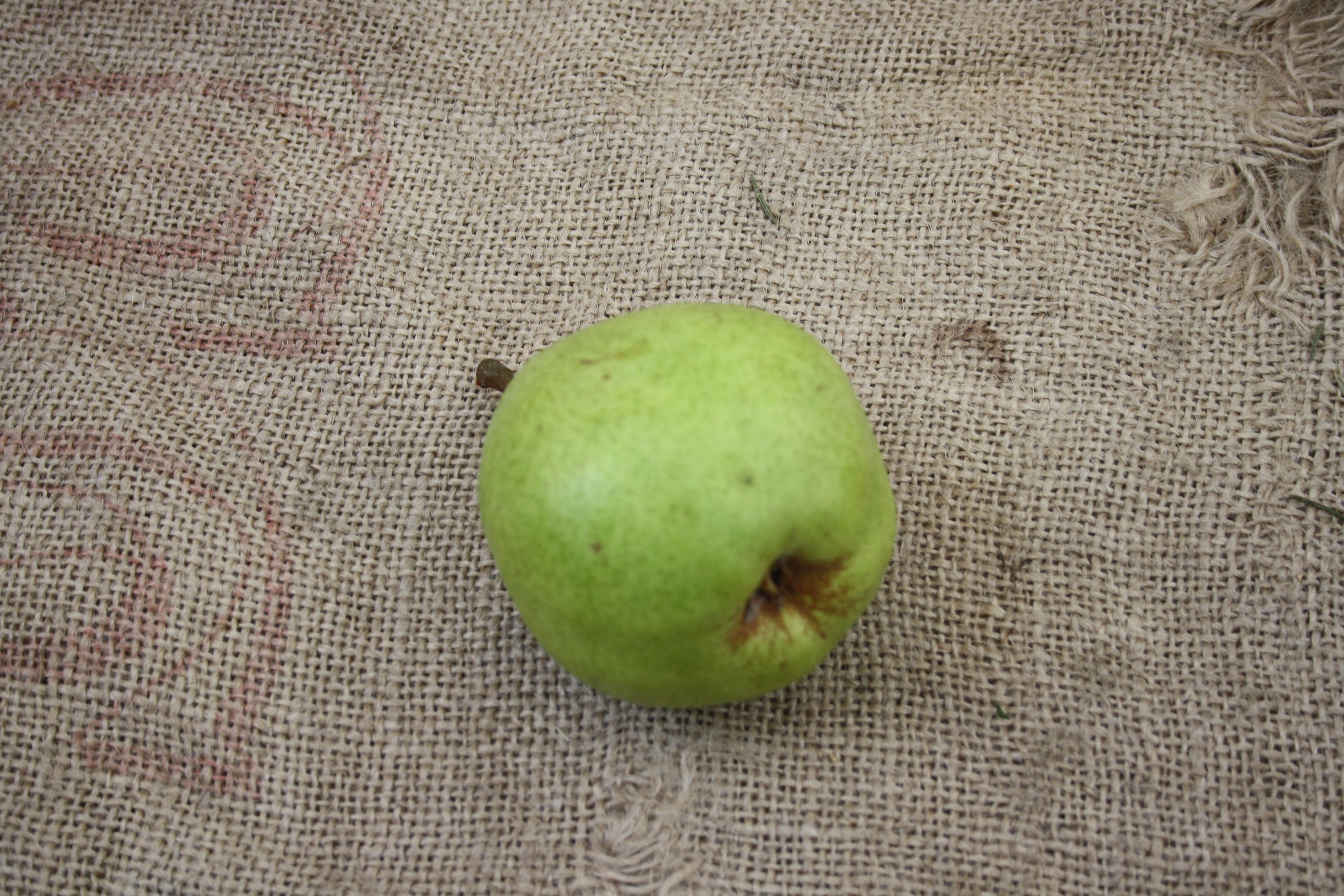 apples - picture taken at Nordeutsche Apfeltage - Gut Wulksfelde near Hamburg